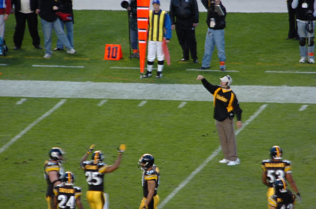 Bill Cowher throws the challenge flag (upper left portion of the screen) during an NFL game in 2006.